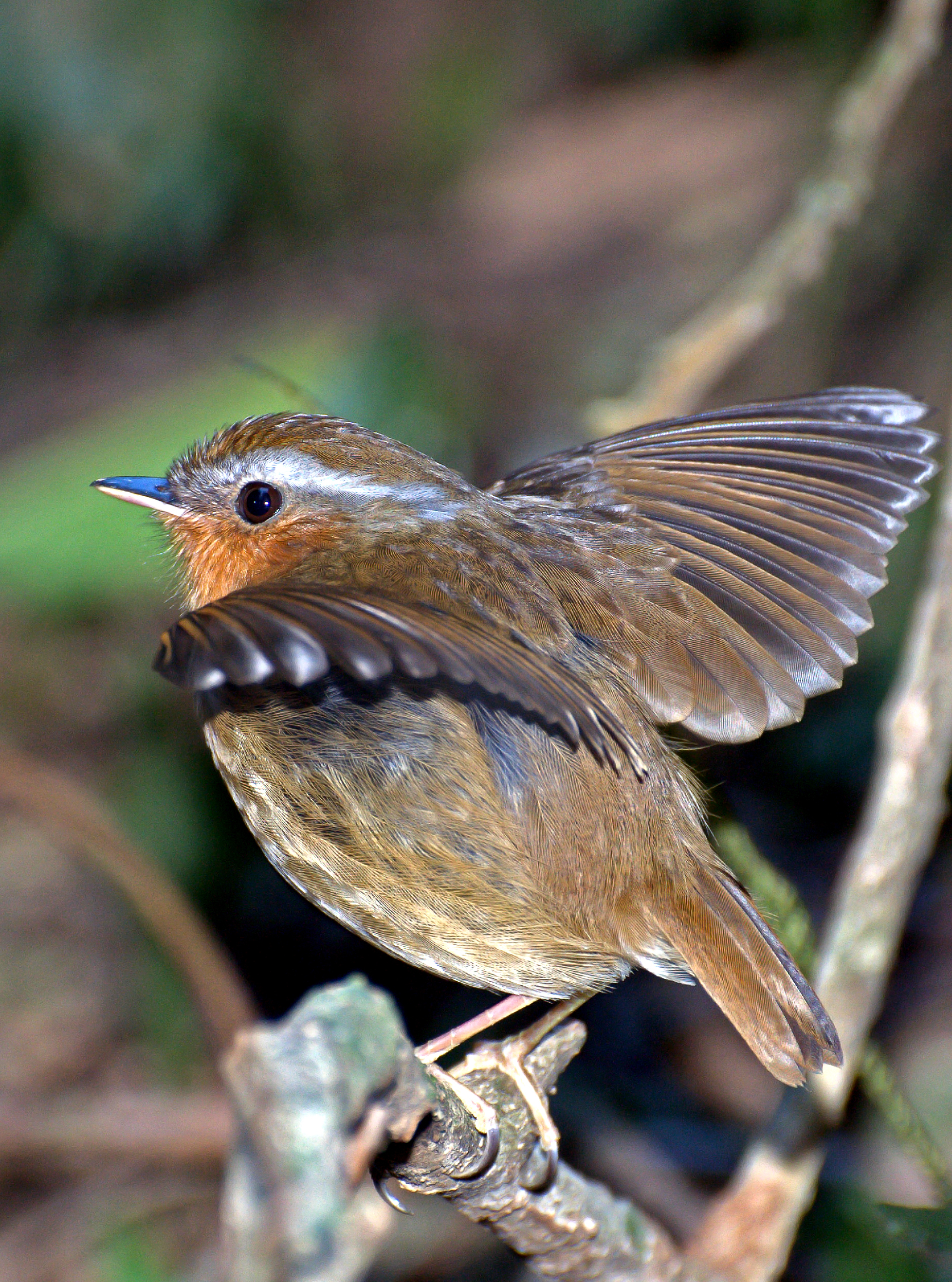 A Rufous Gnateater at Parque Estadual Turístico da Cantareira, São Paulo, Brazil.